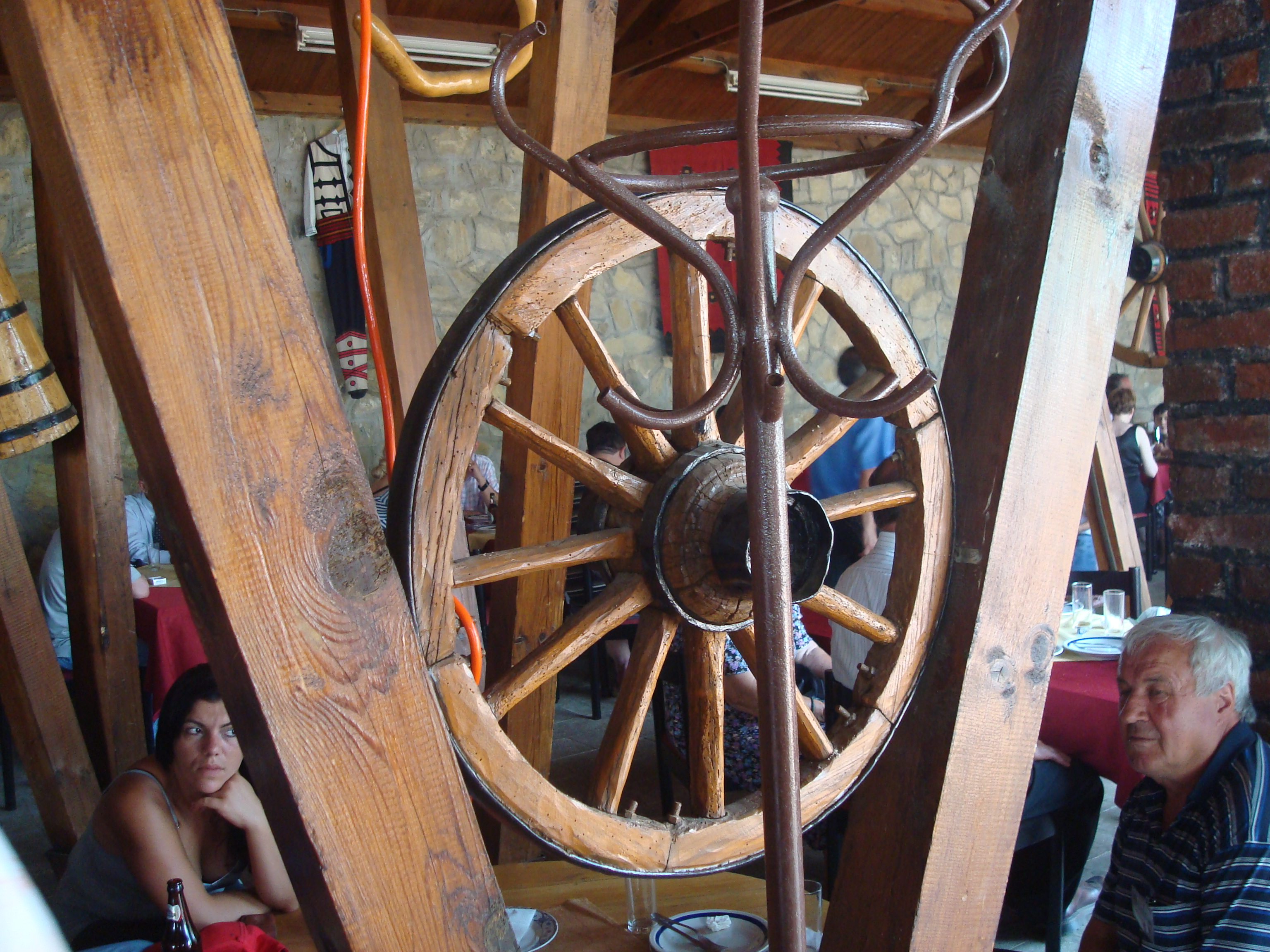 Lešok monastery, Macedonia